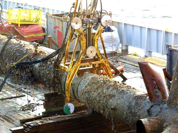 Bluegrass Companies Underwater Saw